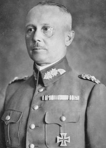 Cropped portrait of Generalleutnant Werner Freiherr von Fritsch uploaded by Emiya1980